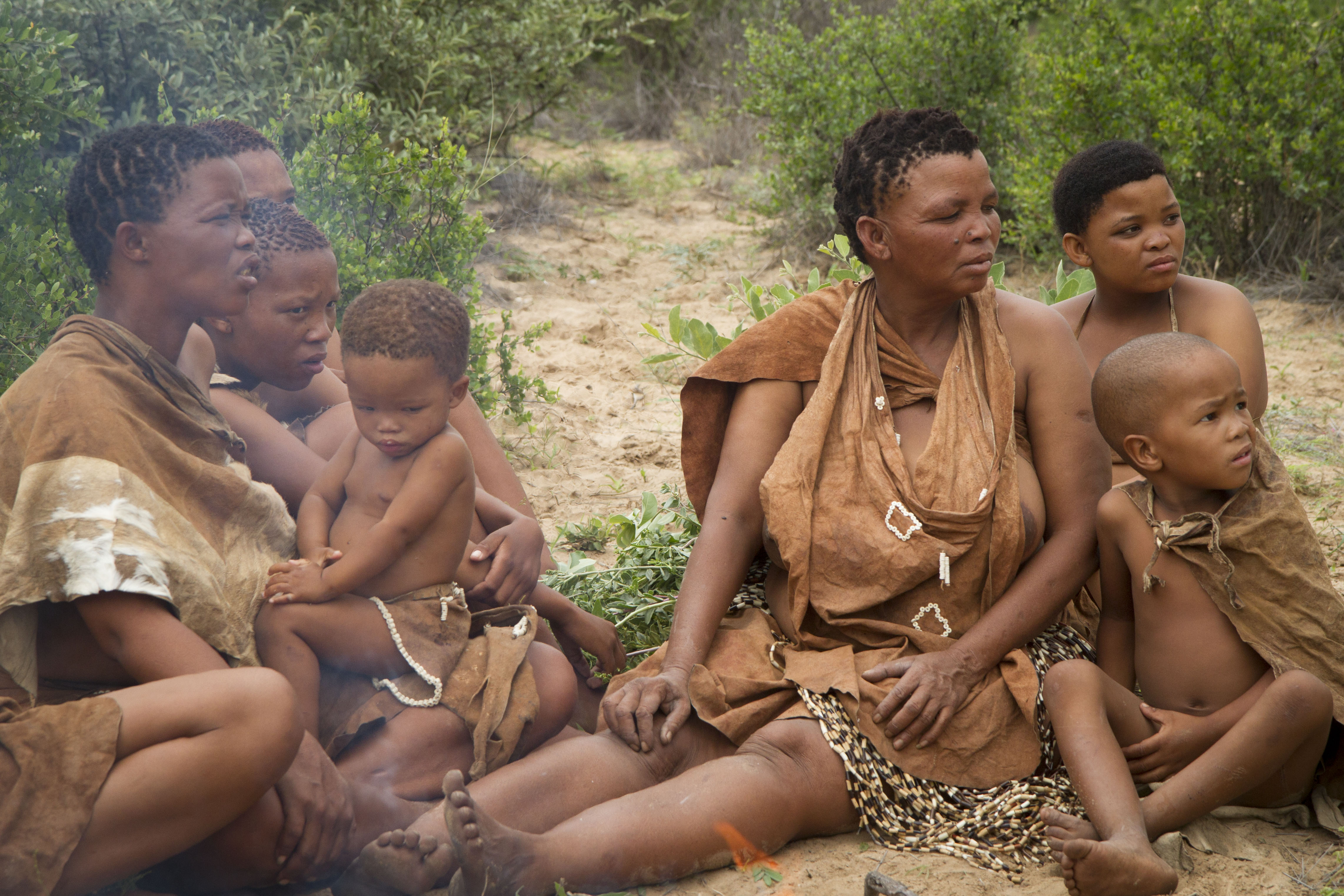 Day with bushman in Grassland Bushman Lodge, Botswana